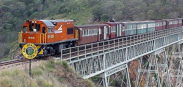 South African Class 91-000 91-018Builder's Number: GE 38620Type: GE UM6BLocation: Van Stadens River, Eastern Cape